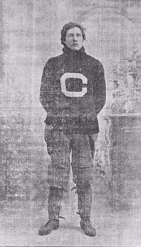 Edwin Sweetland at Cornell c. 1898-99